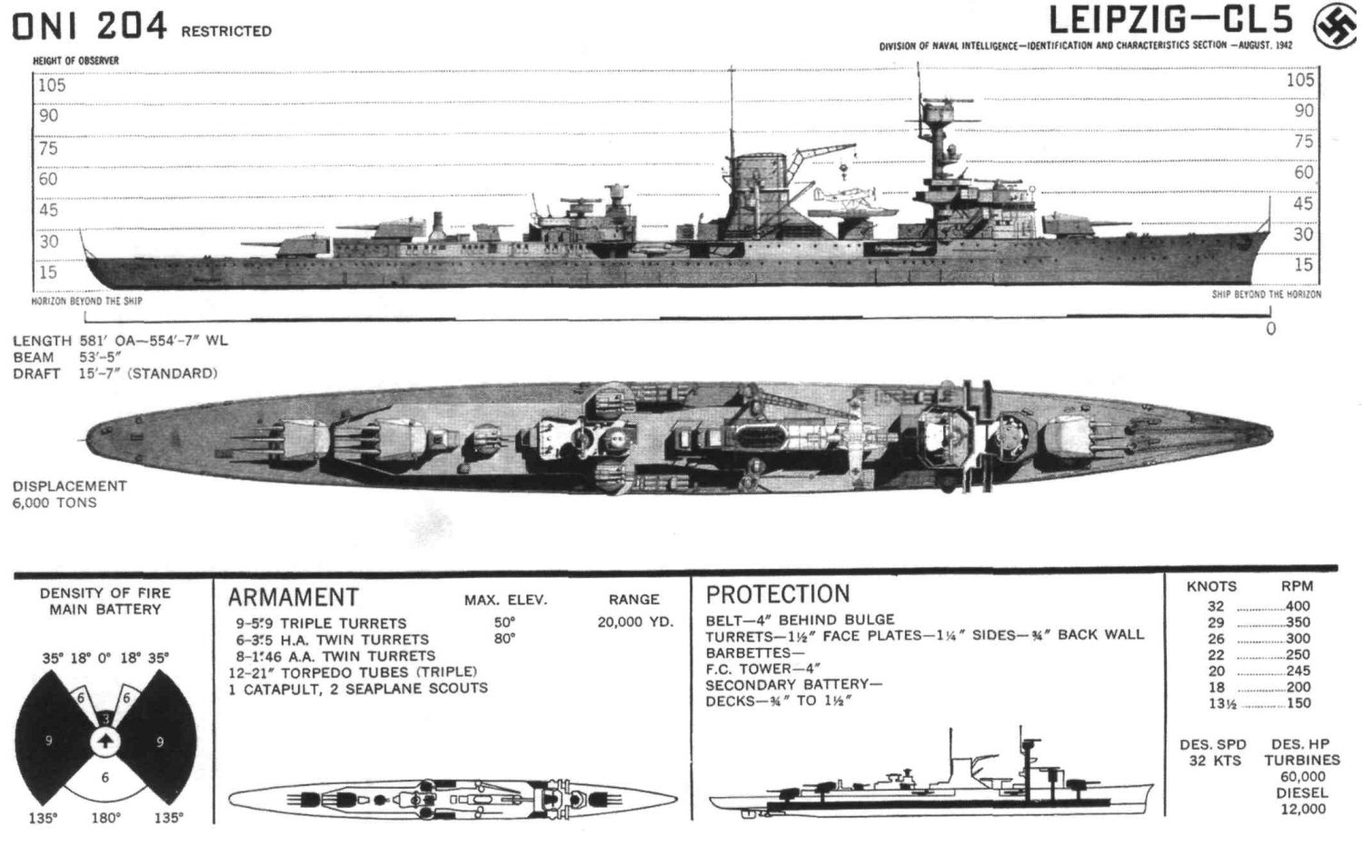 Silhouette of the German light cruiser Leipzig